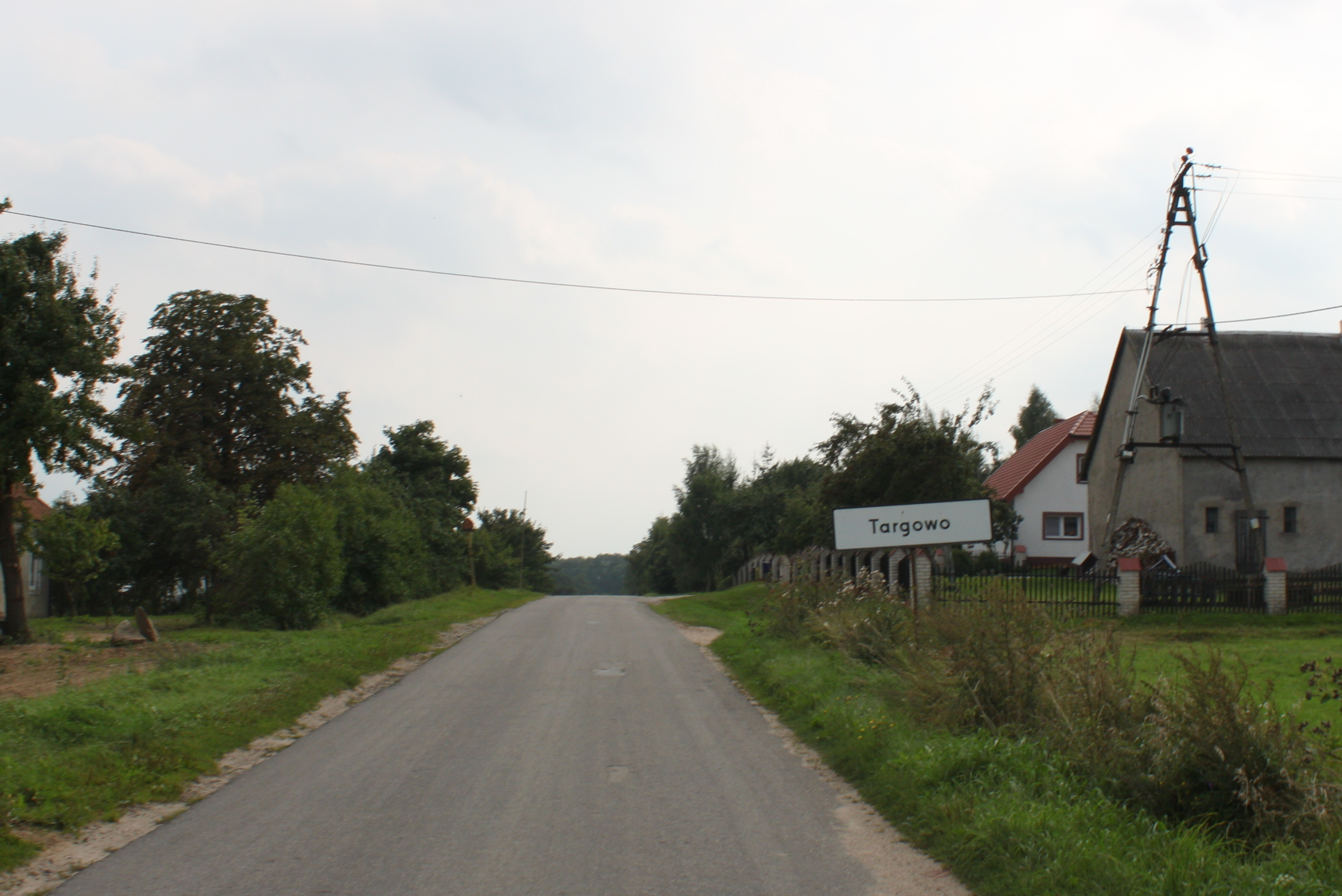 Road in Targowo.